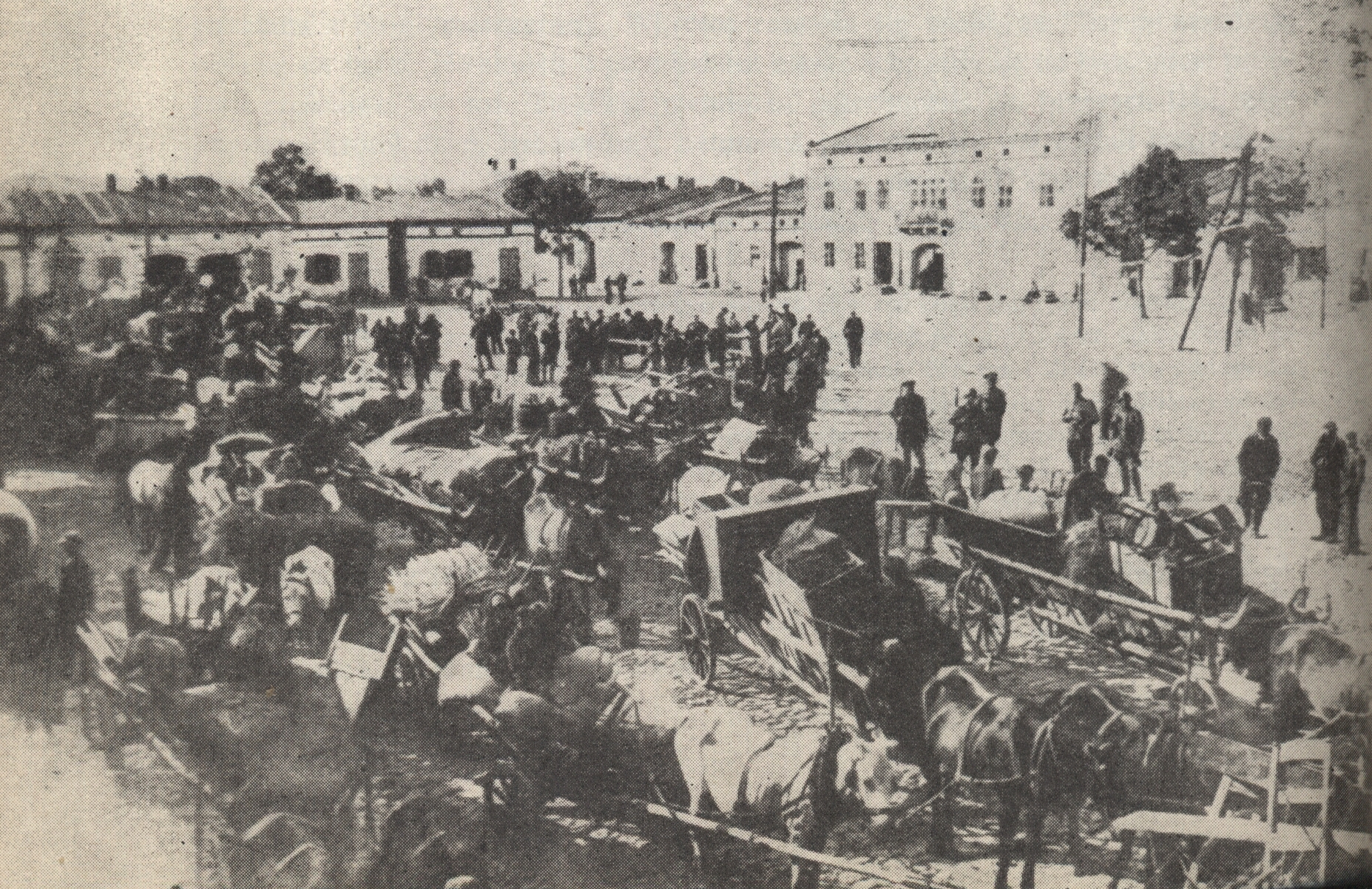 Deportation of Jews from Przyrów in Częstochowa county.